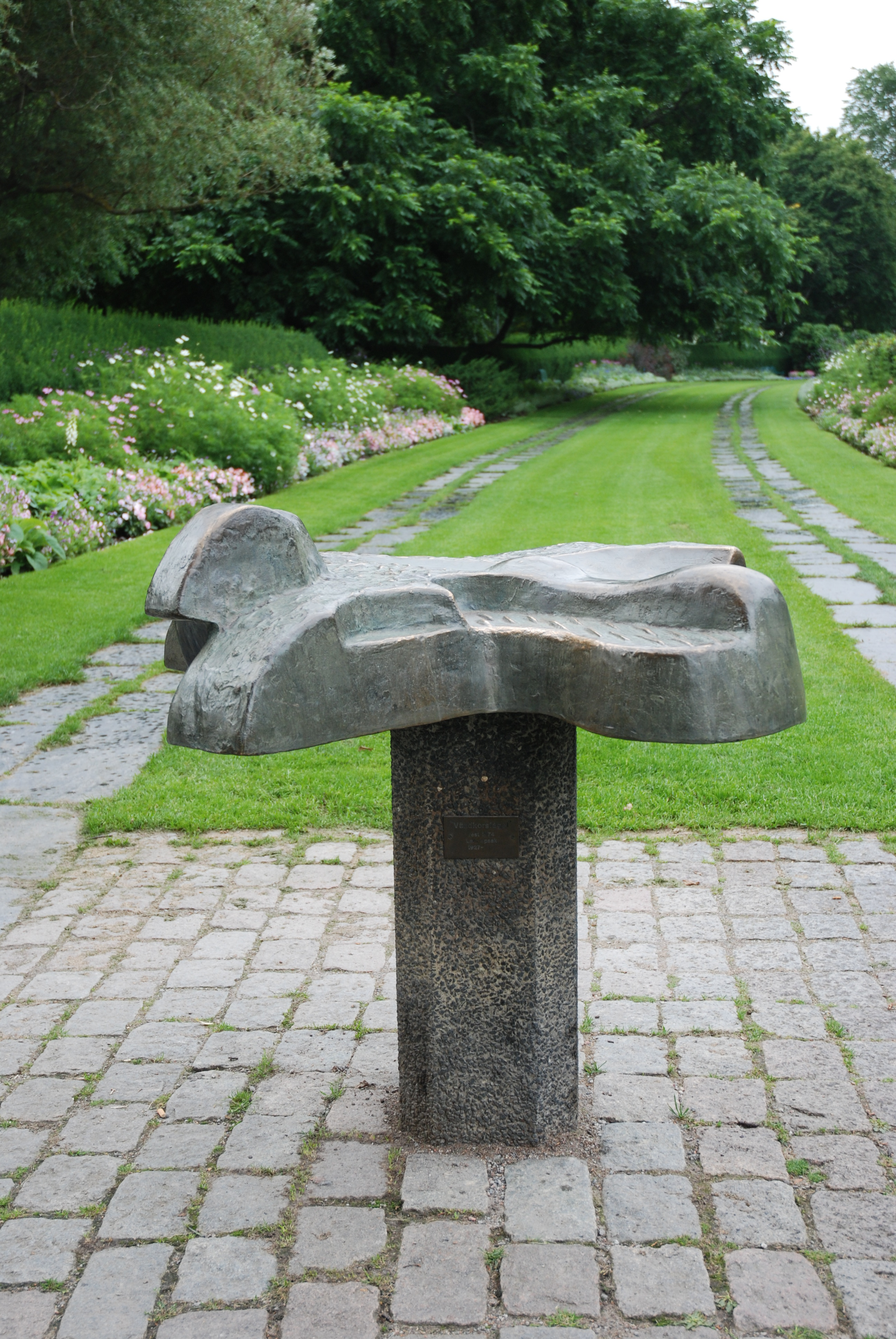 Lars Spaaks Vändkorsfågel, Örebro stadspark